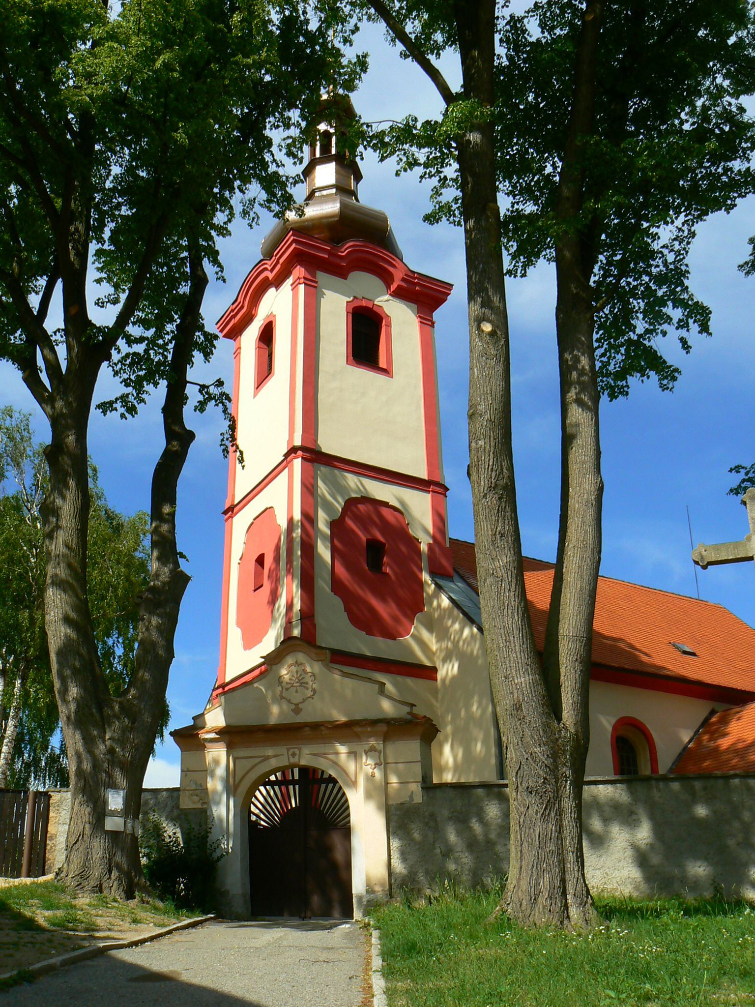 Dráchov village church of Saint Wenceslaus, Czech Republic